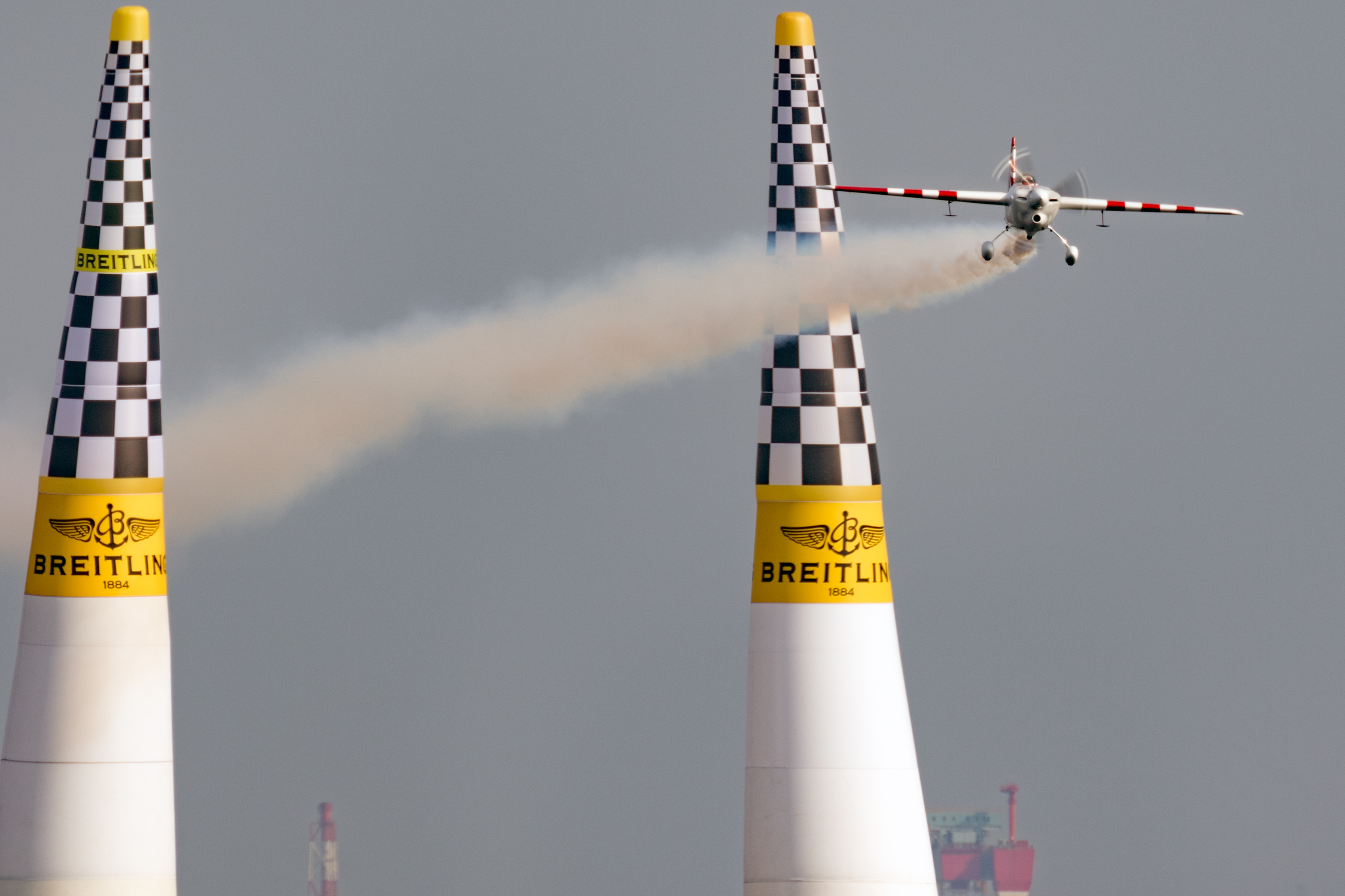 Paul Bonhomme